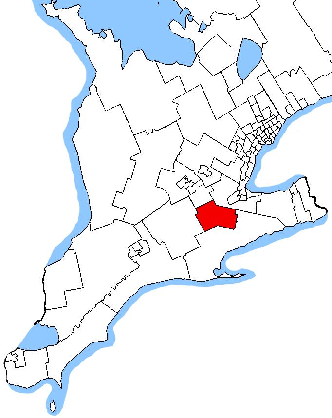 Map of the Brant electoral district. Based on Earl Andrew's maps, created by SimonP.